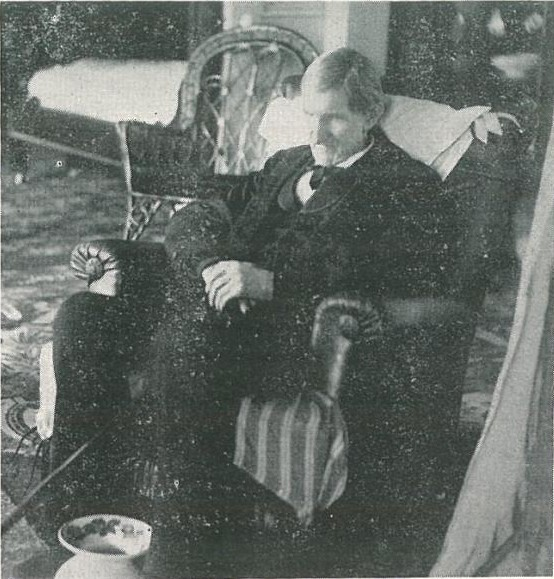 Thomas Means, from the book A History of Ashland, Kentucky 1786 - 1954.